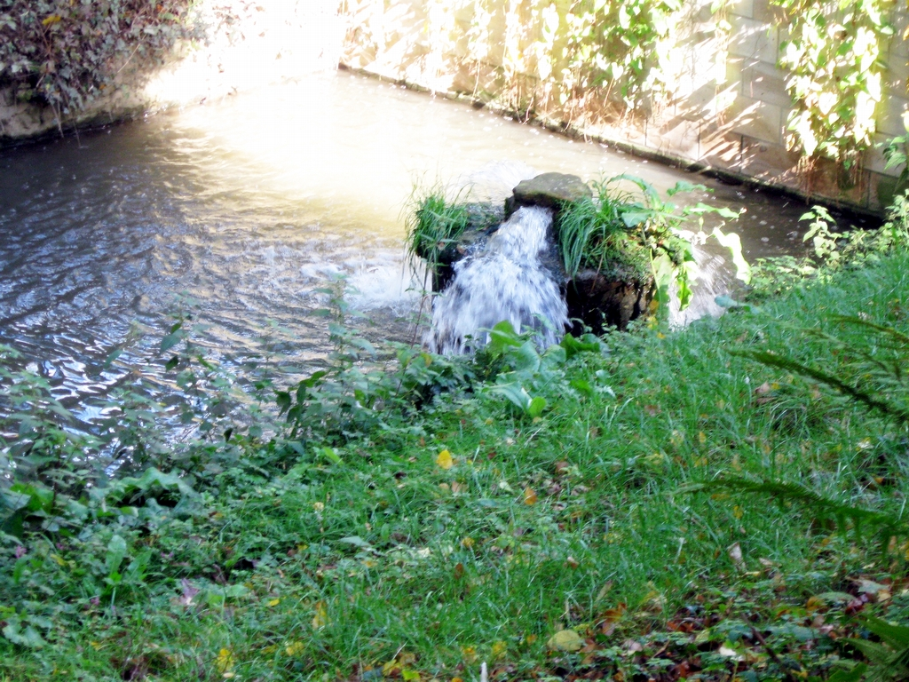 The artificial water inlet of Bowerre in Herford.